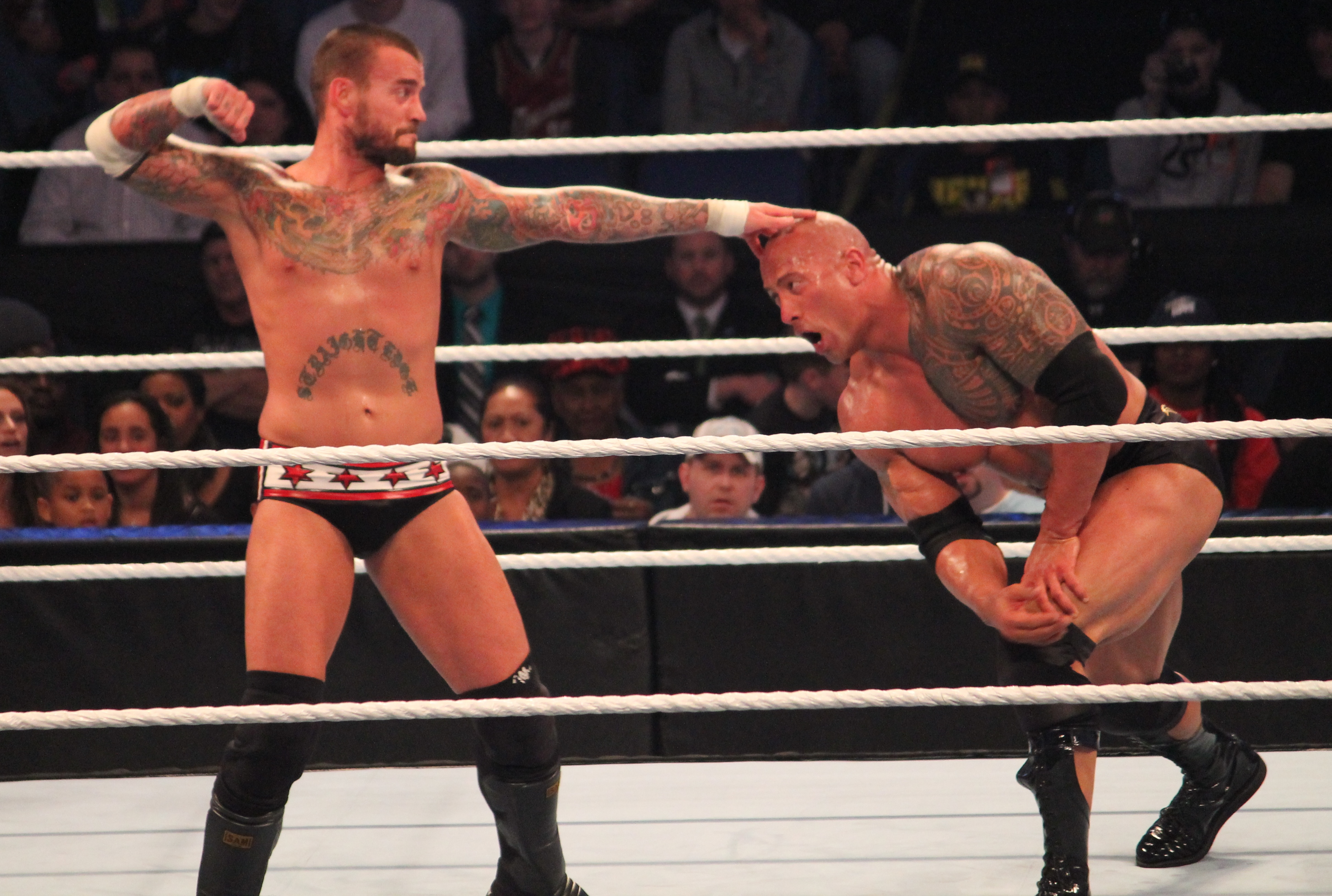 Punk executing a punch on WWE Champion The Rock at Elimination Chamber 2013.